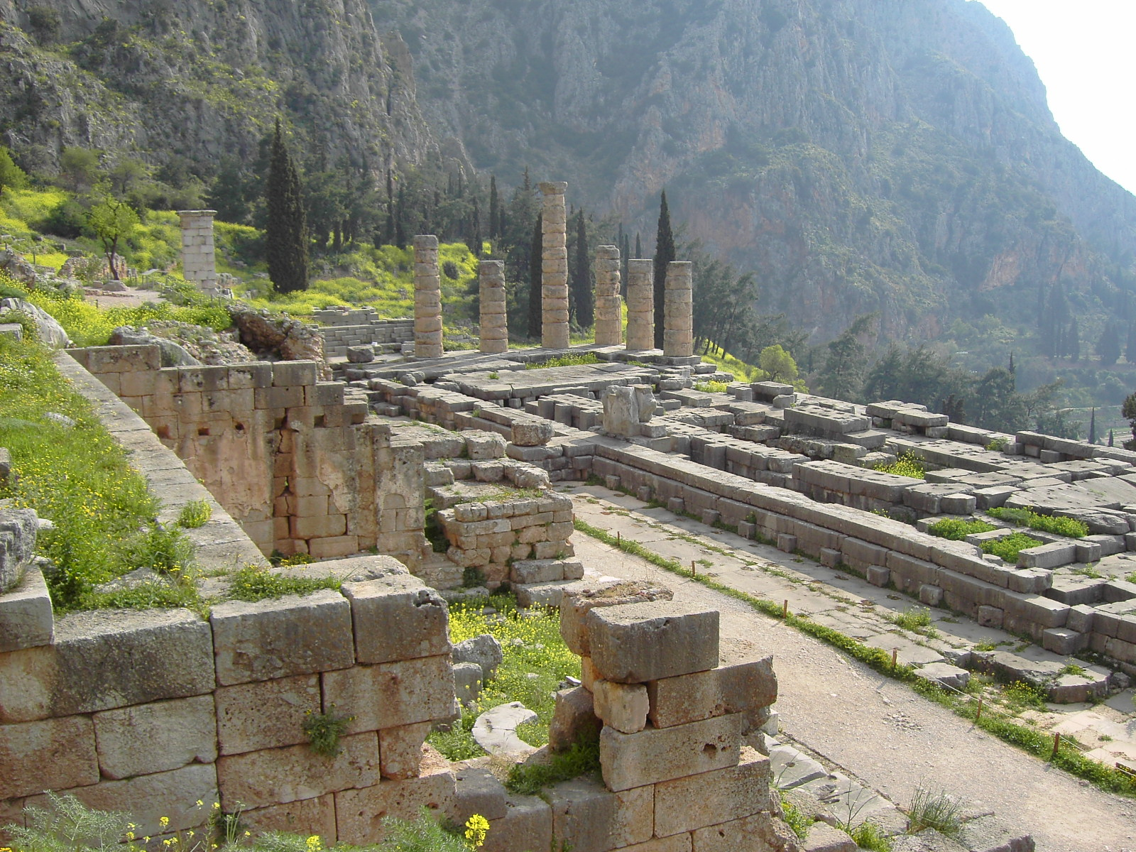 Temple of Apollo in Delphi. eigen foto Sofie Debognies april 2005